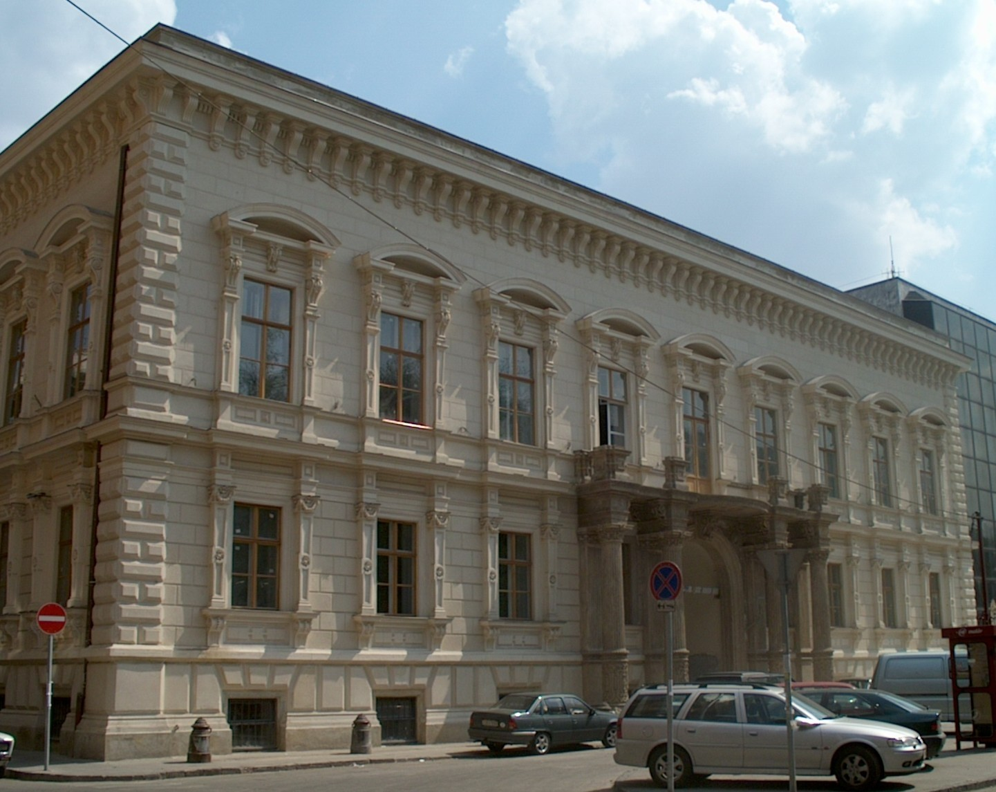 Photo of Festetics Palace, Budapest